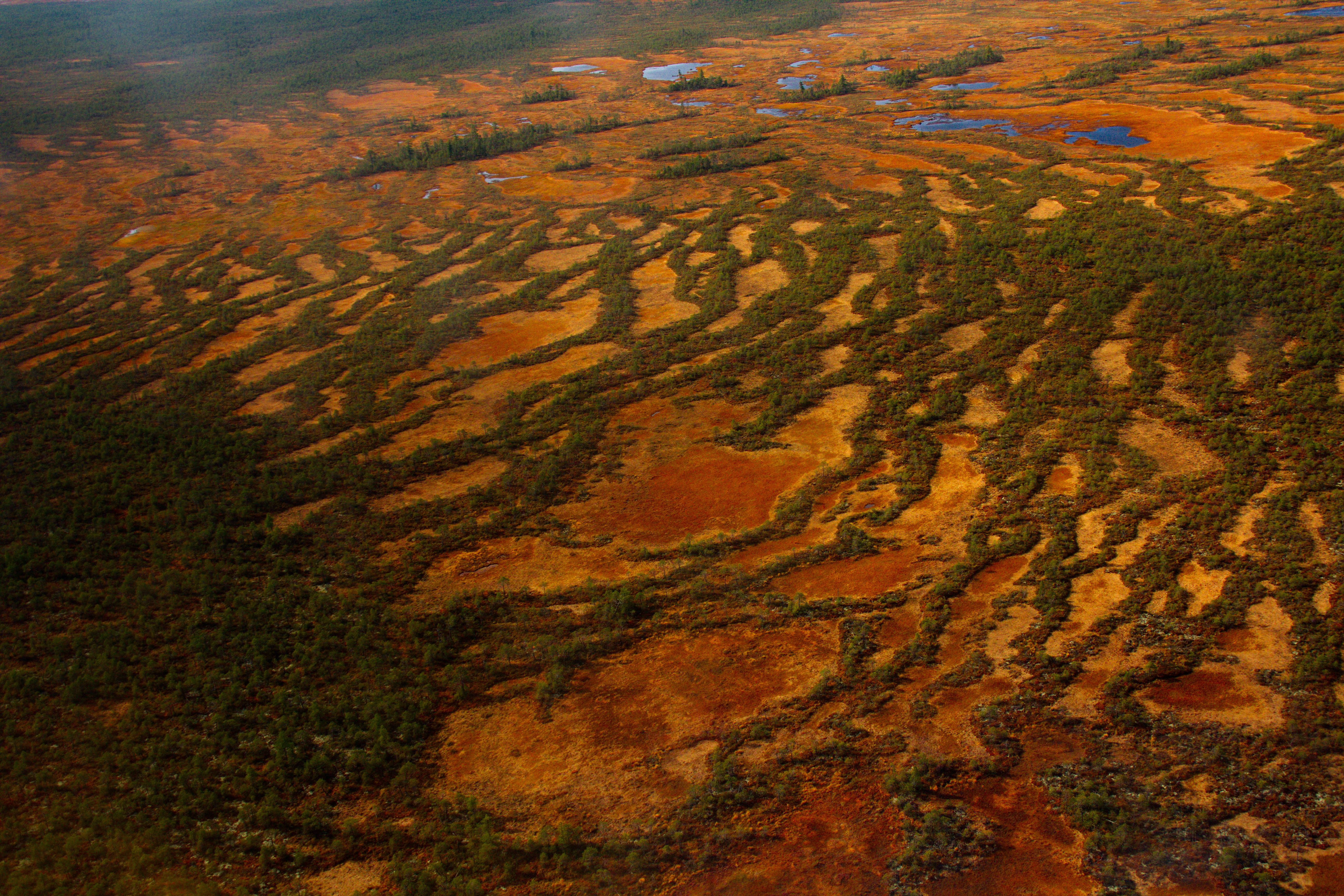 aerial view of a peatbog in the Yuganskiy nature reserve. The stripe pattern, called the ridge-hollow complex, is formed by rows of dwarf Scots pine forest with wet Sphagnum glades inbetween. One of my favorite places to be, of all :)